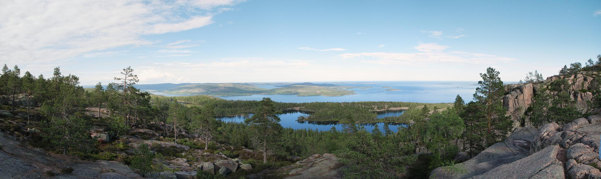 Höga kusten, Sweden, stitched panorama of 11 images.